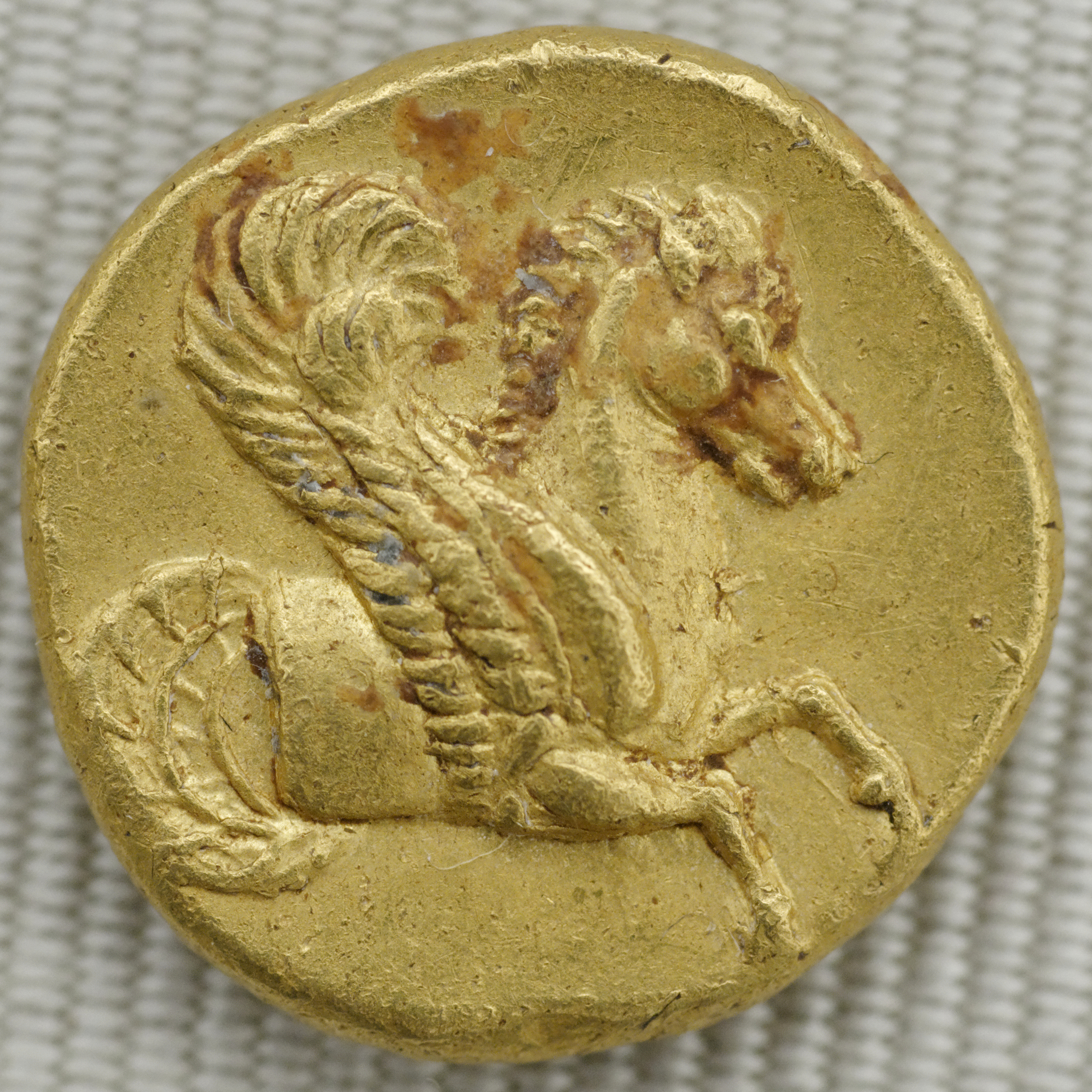 Pegasus protome flying right. Reverse, gold stater from Lampsacus, Mysia (ca. 360–340 BC), reverse.